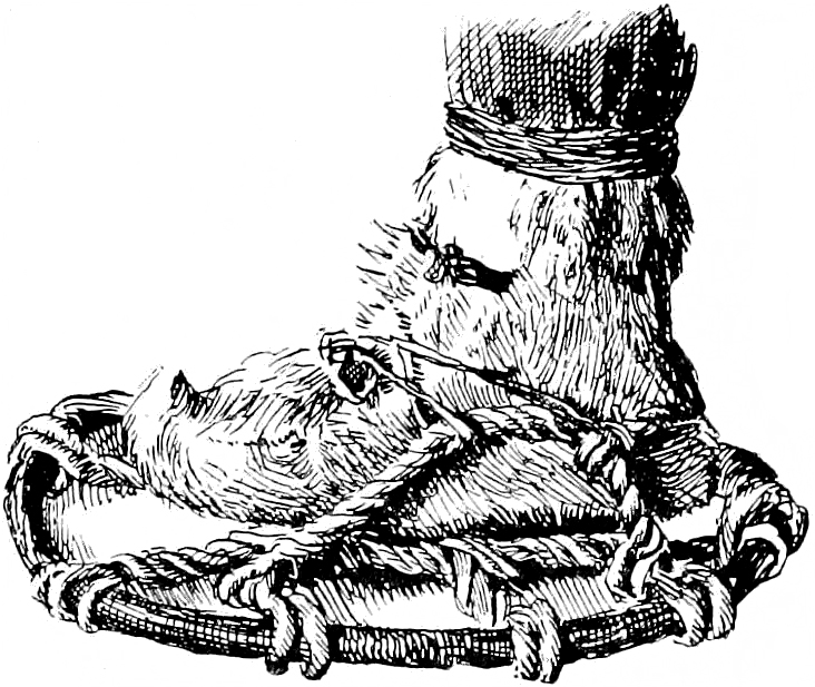 Sami shoes, along with snowshoes, used in Fridtjof Nansen's Greenland expedition.